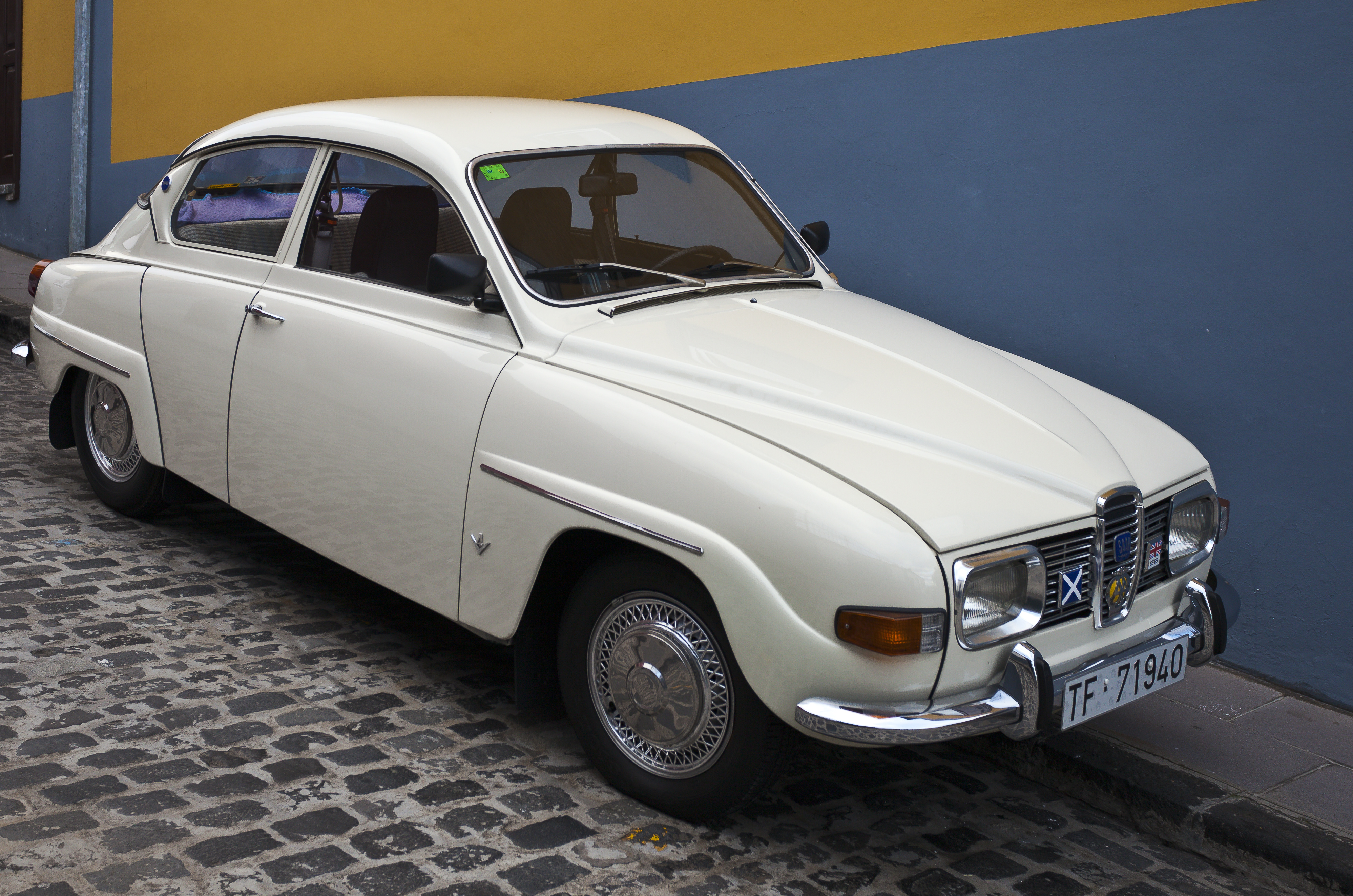 Saab 96, La Orotava, Tenerife, Spain